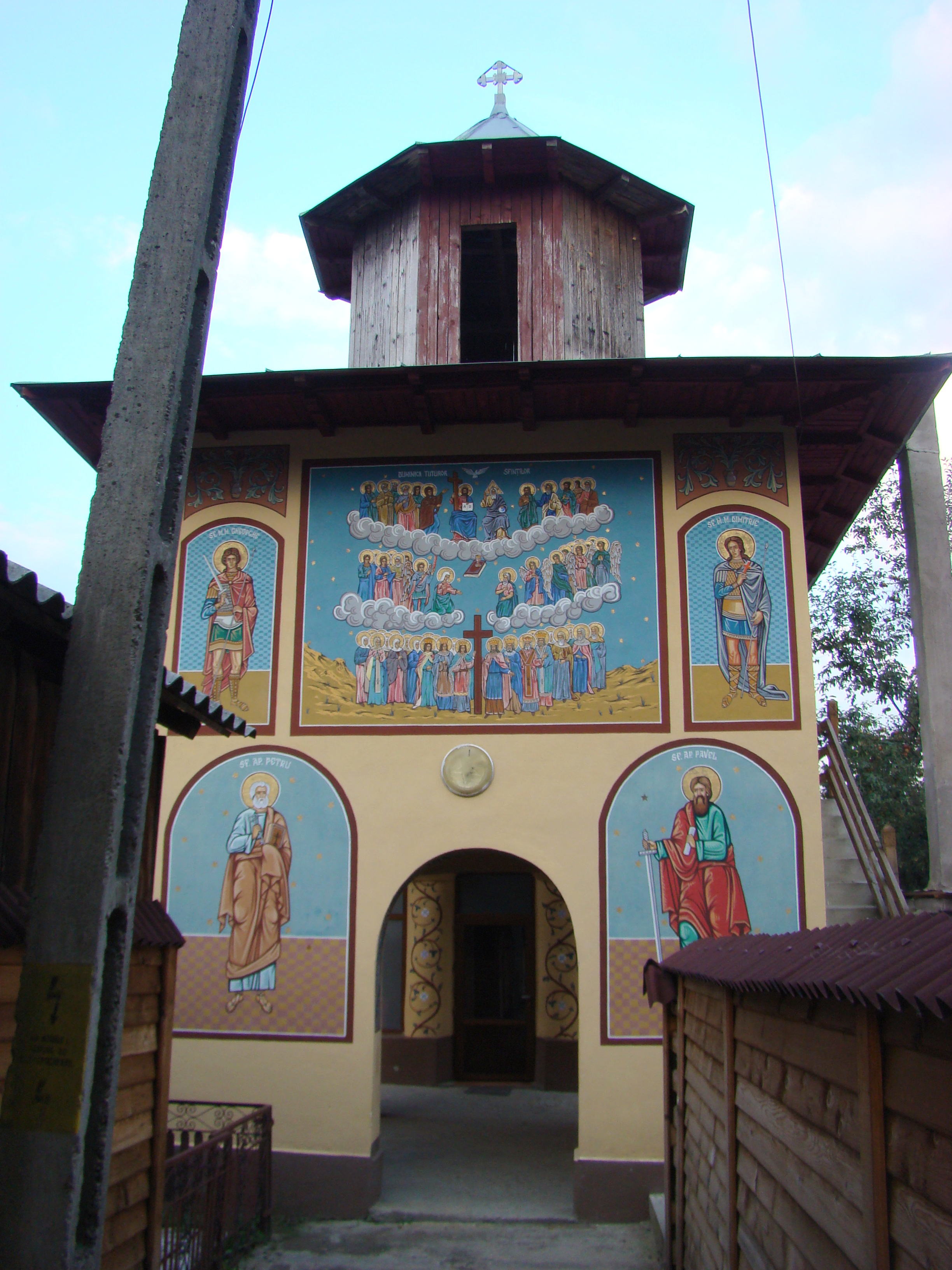 Wooden church in Vărzăroaia, Argeș county, Romania